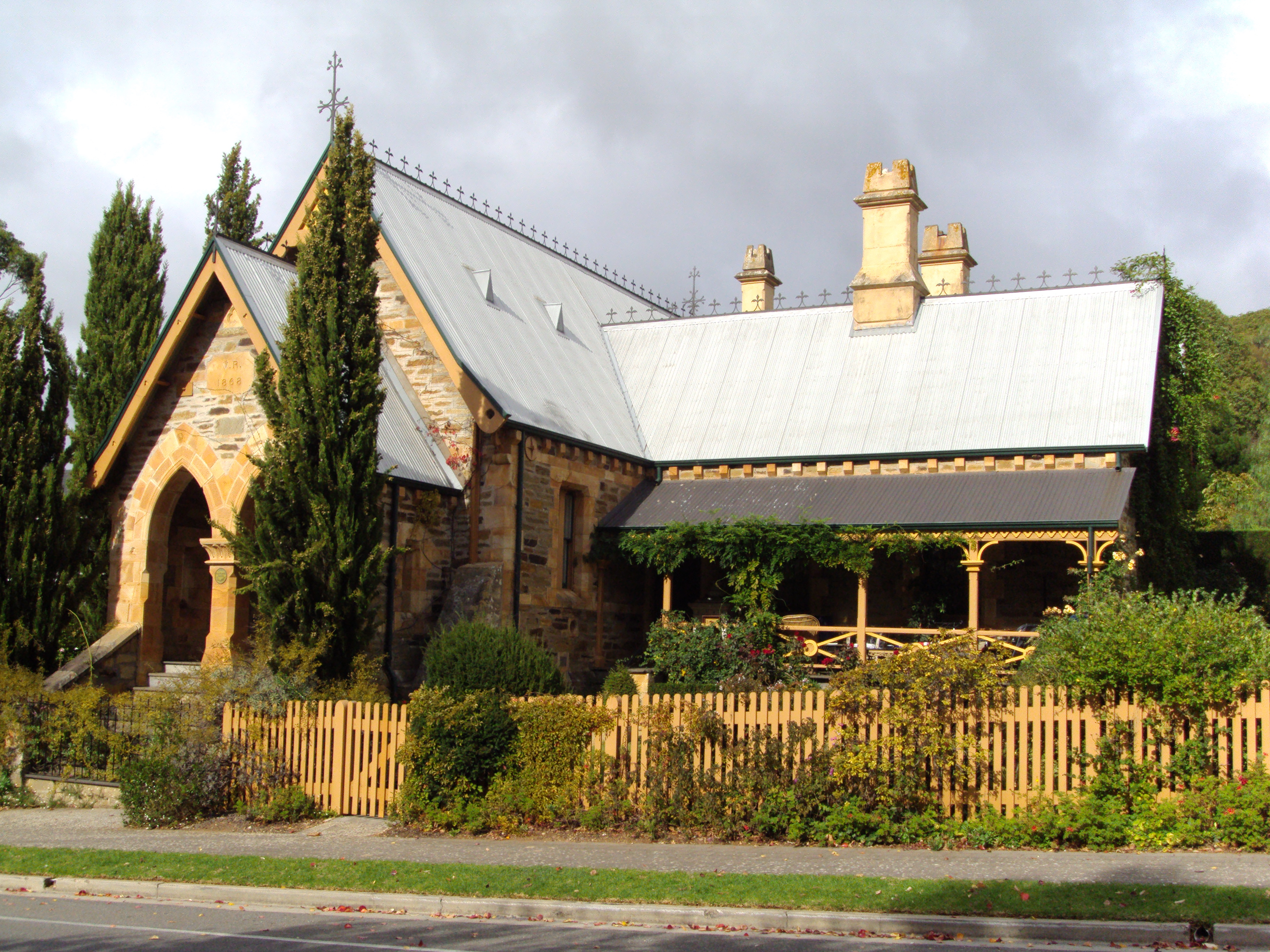 1868 Gothic Police Station and Court House in Clarendon, South Australia